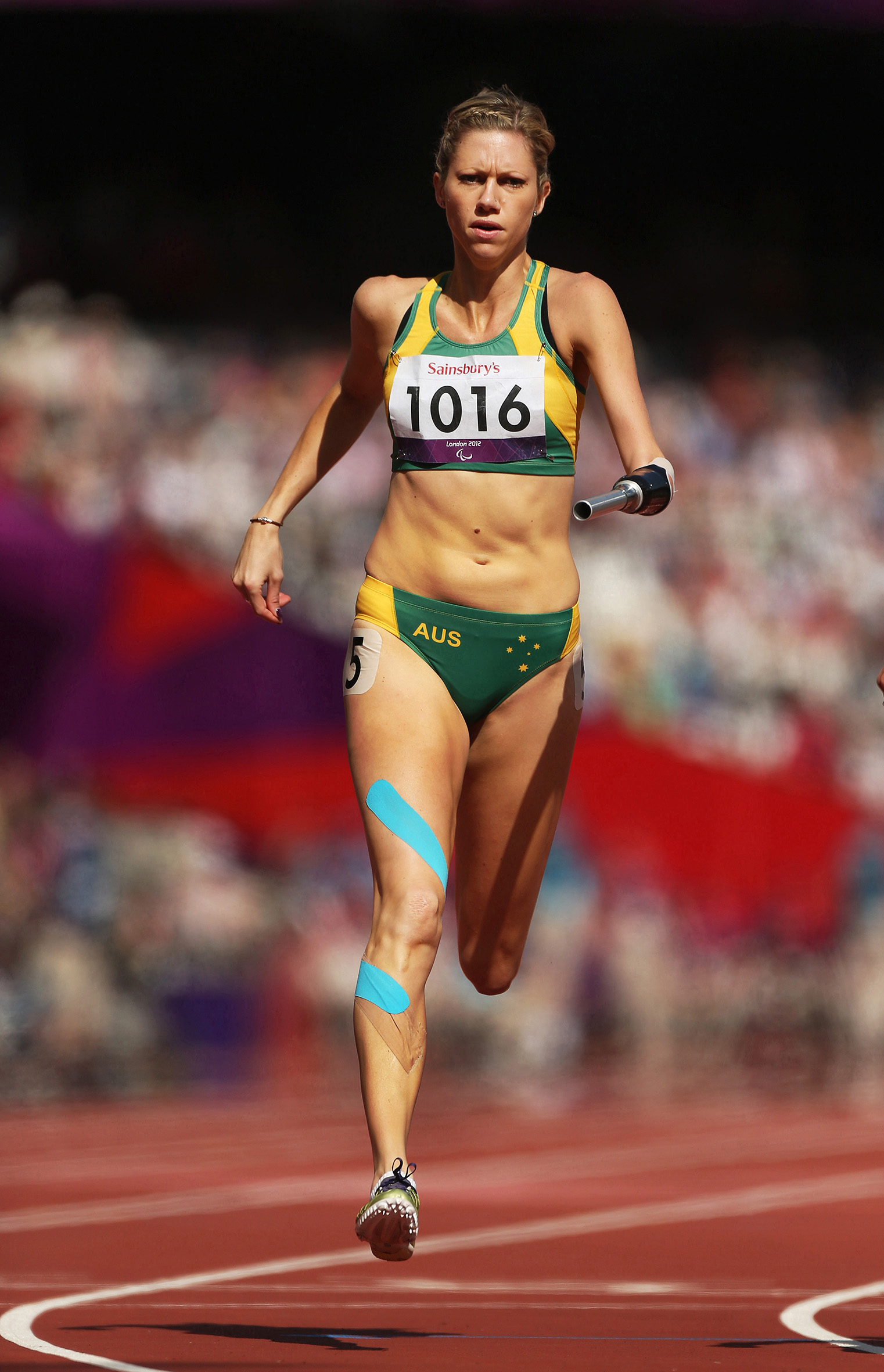 Photograph of Australian Paralympic team member Carlee Beattie at the 2012 Summer Paralympic Games in London